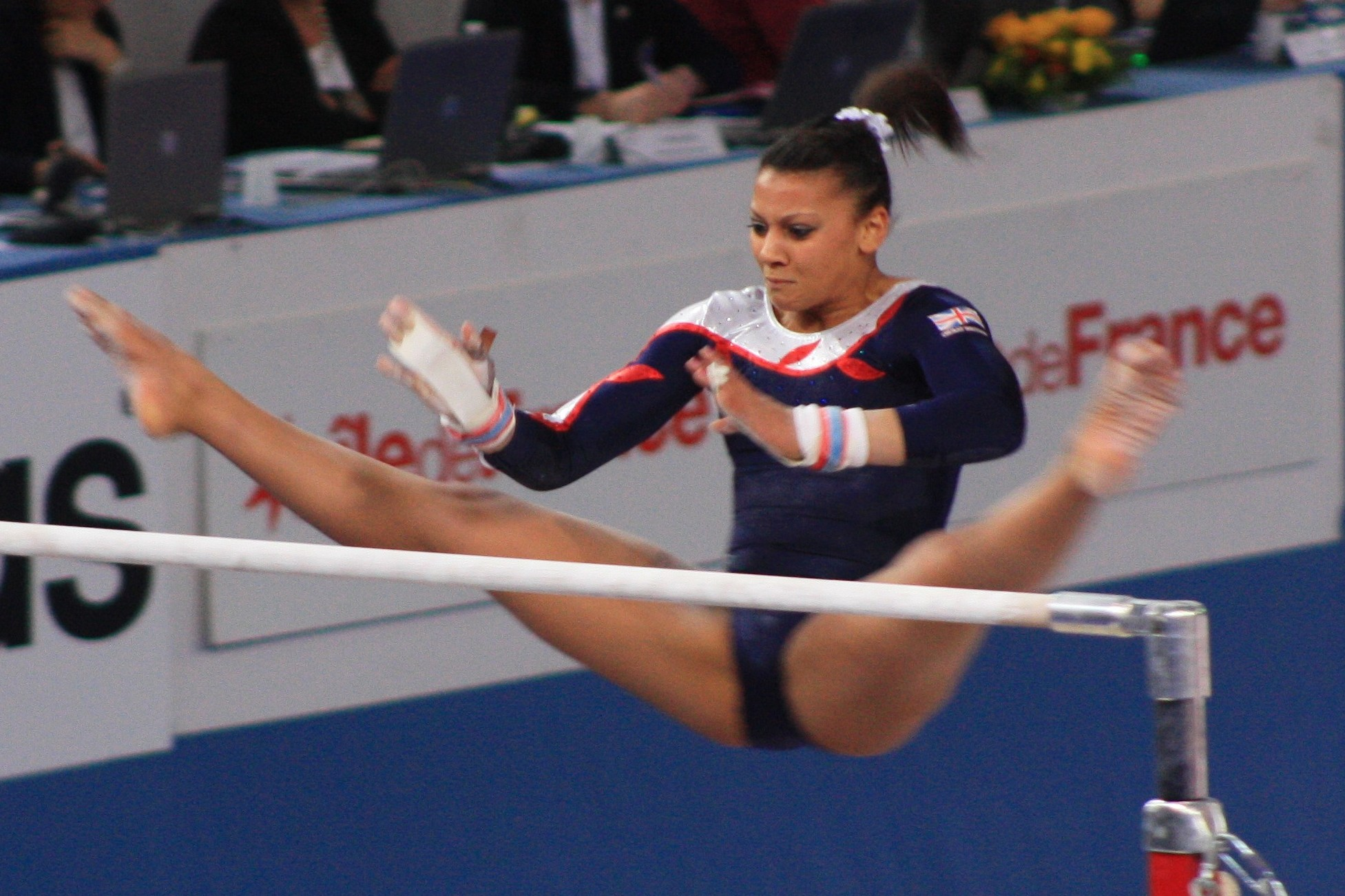 Rebecca Downie in the uneven bars qualifications at the 17th Internationaux de France, in 2010.